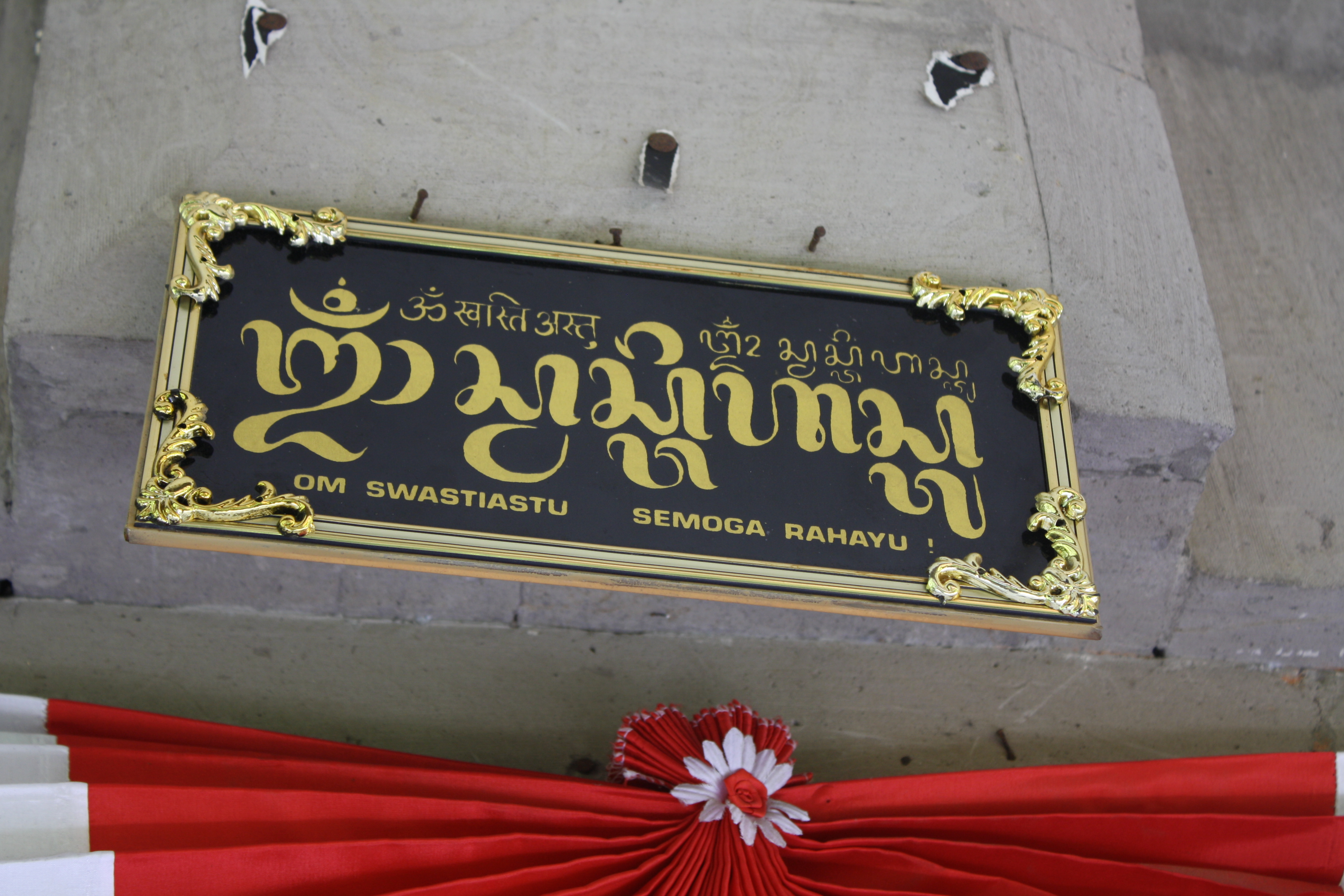 Taken in SMAN 4 Denpasar (Denpasar 4th State School), Denpasar, Bali